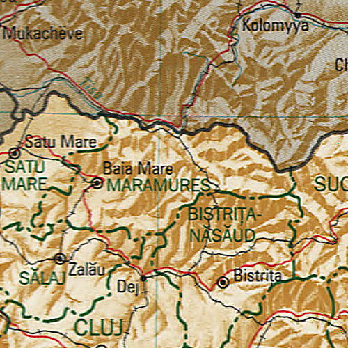 Map of Maramureș County, Romania.